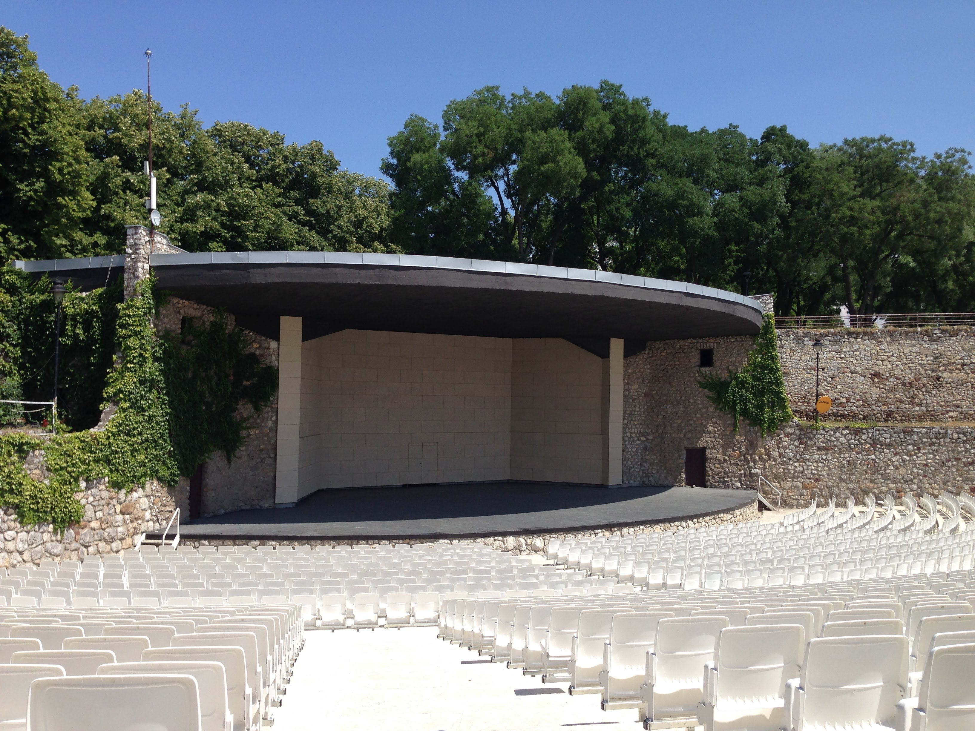 Summer stage in Niš Fortress